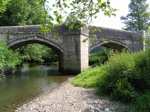 Trekelland (or Trekellearn) Bridge over the River Inny between Lewannick and South Petherwin, Cornwall